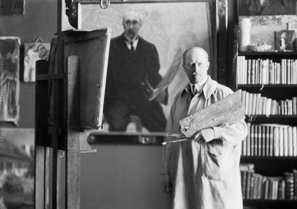 The artist Jonas Åkesson (1879-1970) in his workshop in Bjärred, Skåne, Sweden.